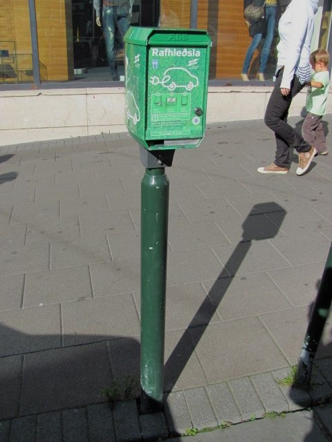 Power station for electric cars in Reykjavik, Iceland